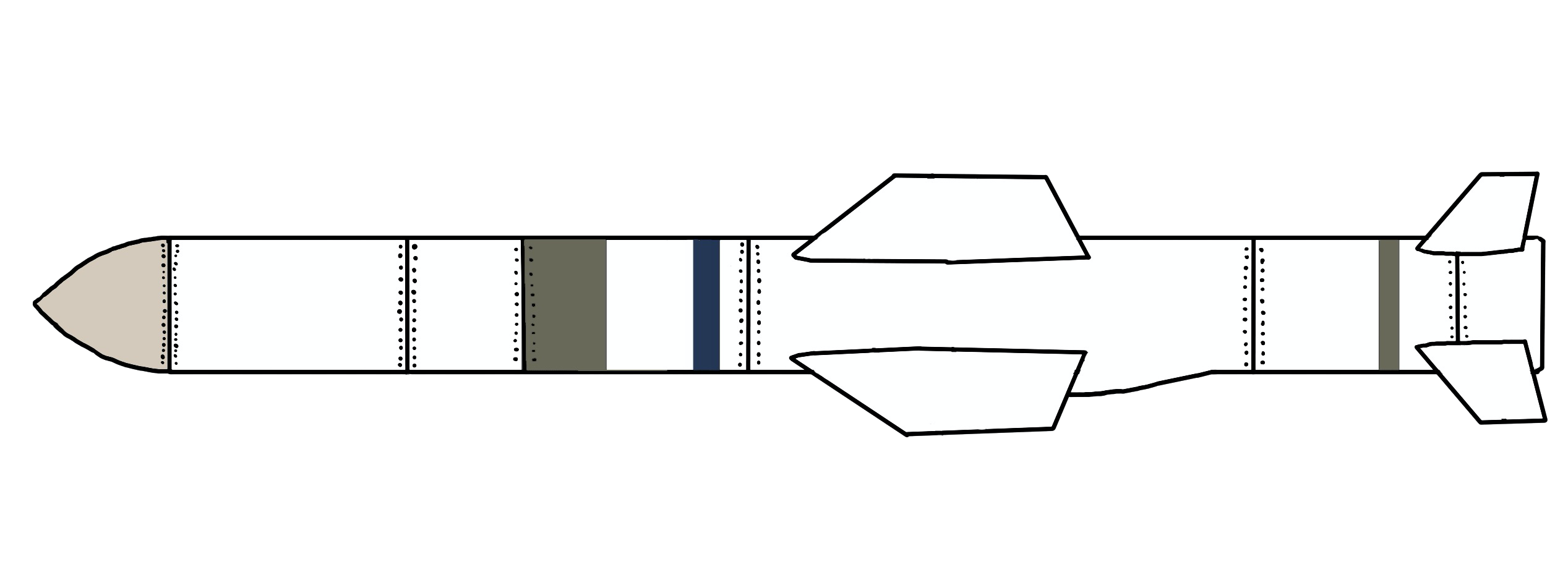 A Coloured Blueprint of what the AGM-84A Harpoon looked like back in 1979